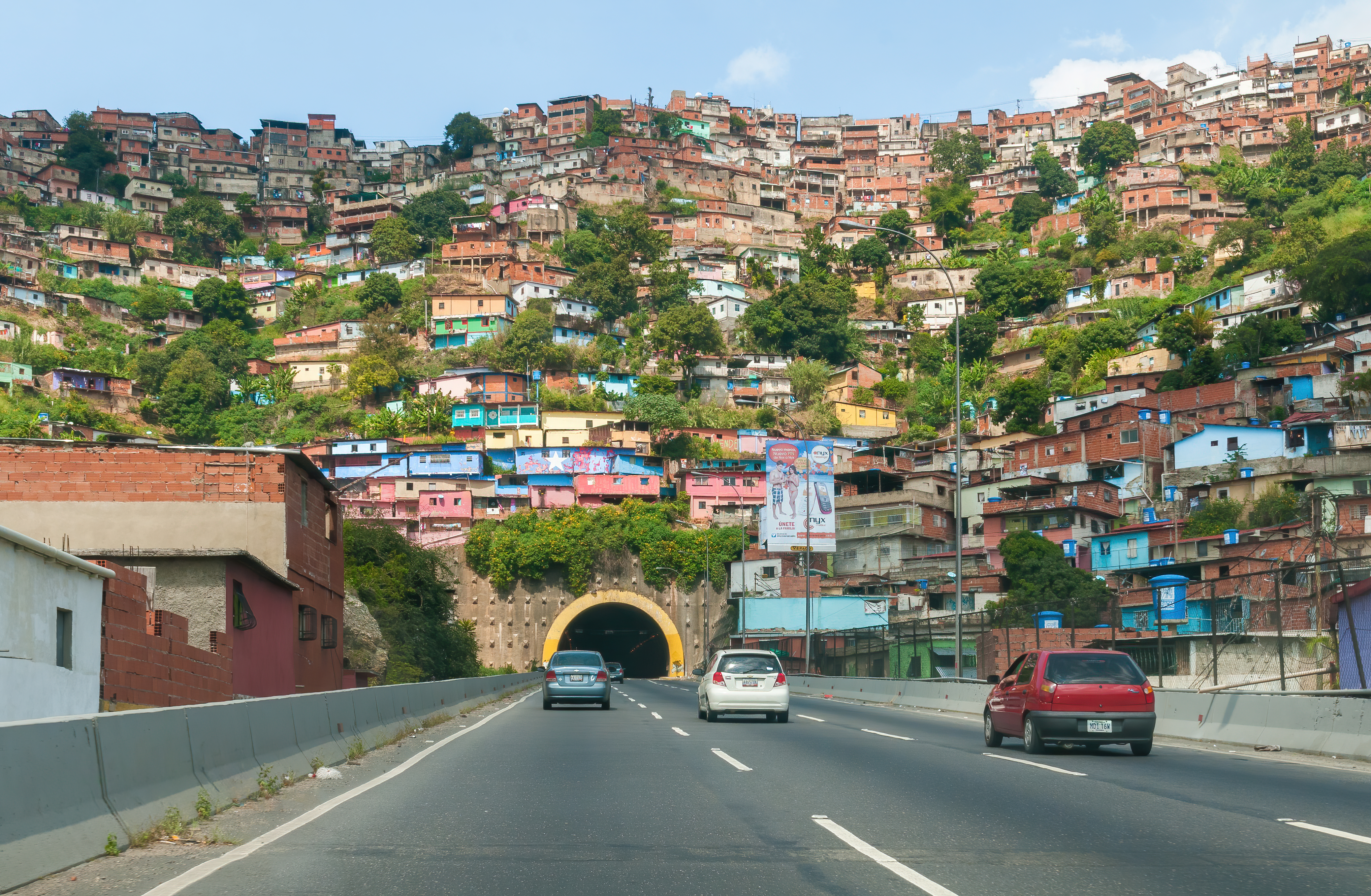 Tunnels El Valle and El Paraíso in the Francisco Fajardo Highway, were built between 1967 and 1968. El Paraíso tunnel has 747 meters includes municipalities Acevedo, Jose Antonio Paez and Manuel Ezequiel Bruzual.